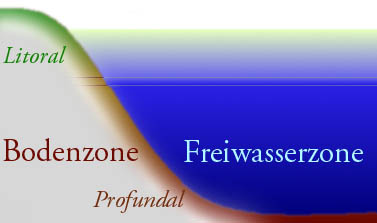 topographical outline of a lake